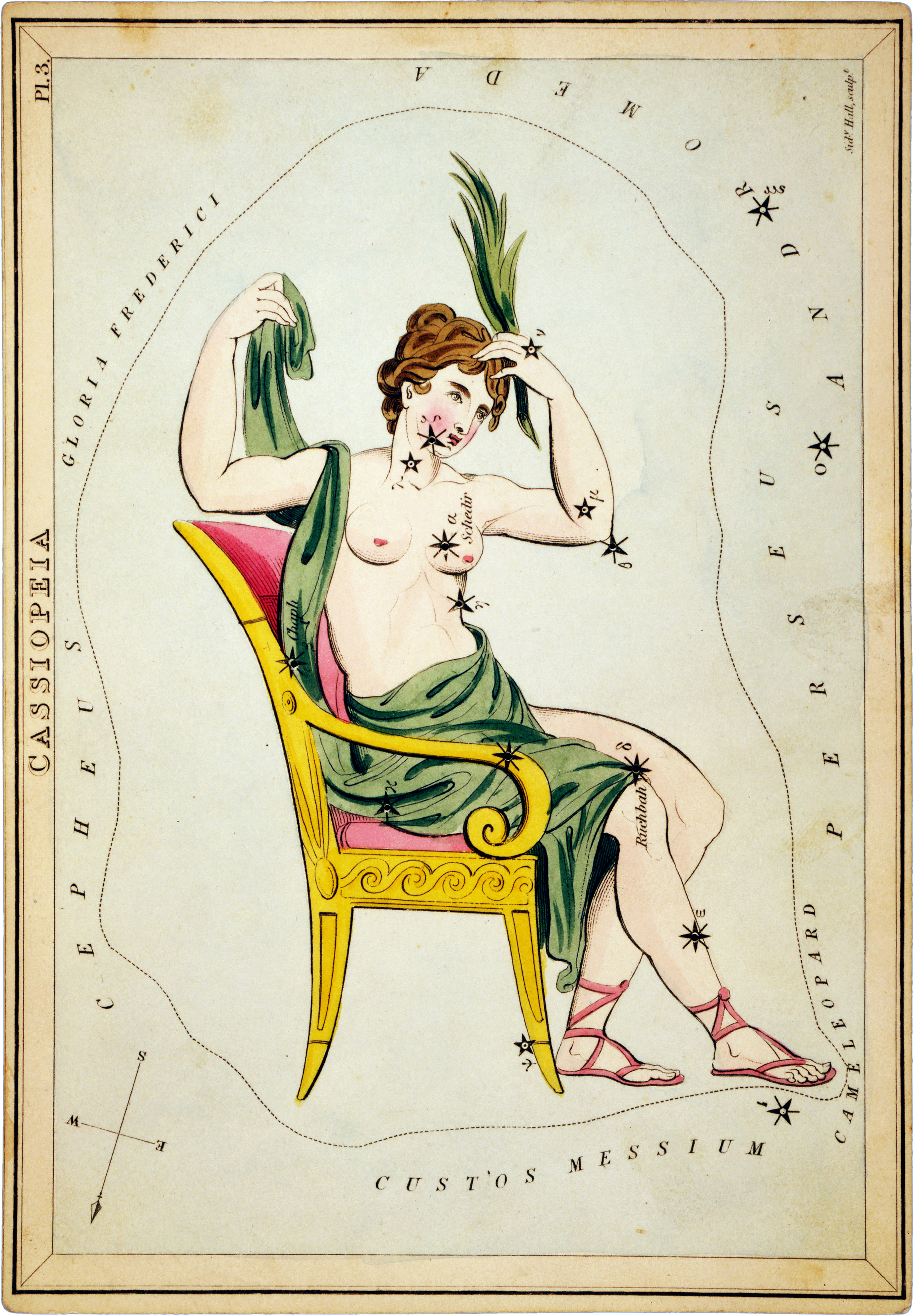 "Cassiopeia", plate 3 in Urania's Mirror, a set of celestial cards accompanied by A familiar treatise on astronomy ... by Jehoshaphat Aspin. London. Astronomical chart showing Cassiopeia seated in a chair forming the constellation. 1 print on layered paper board : etching, hand-colored.